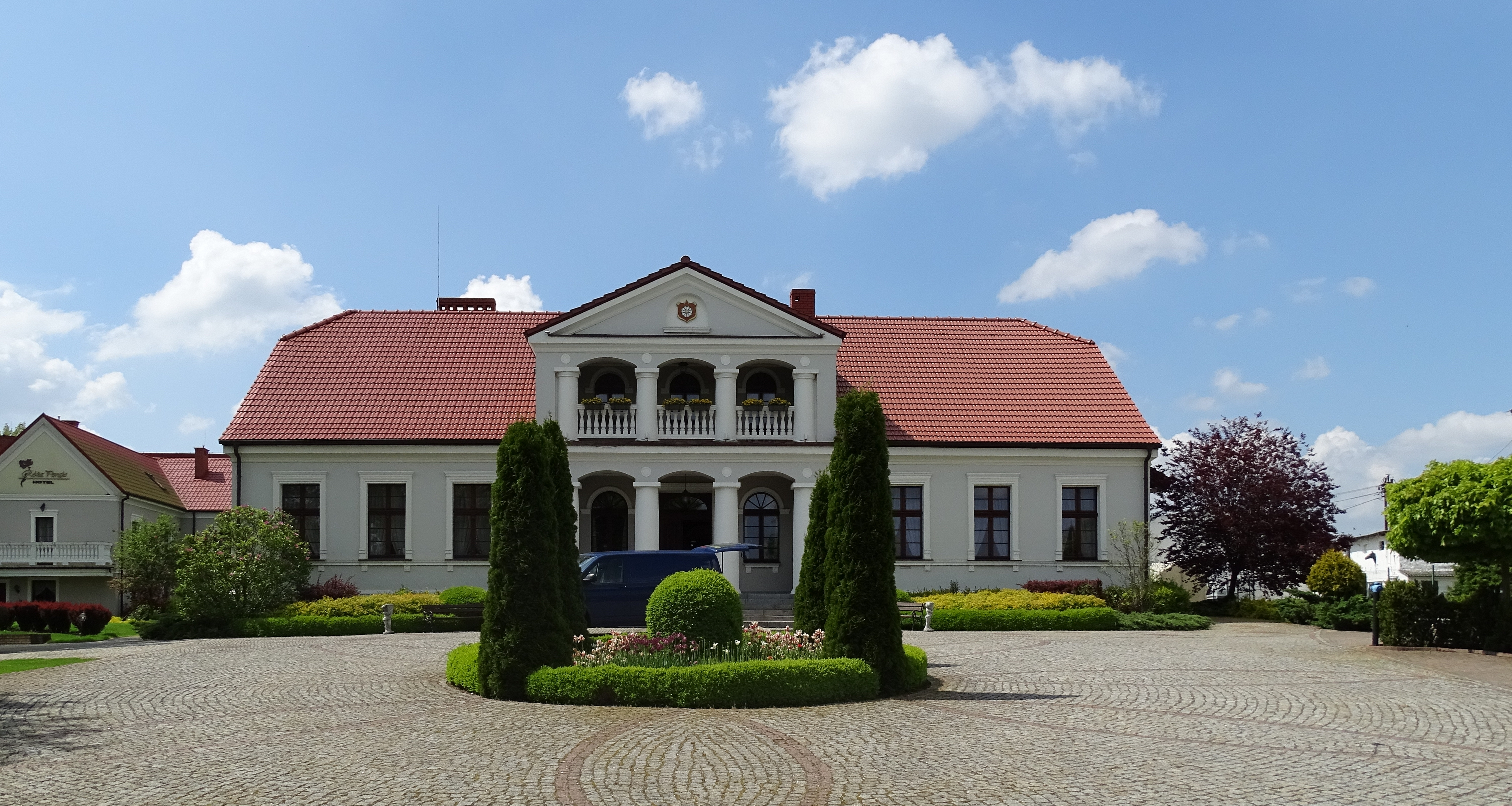 The manor house from the XIX century. Construction started in 1856.